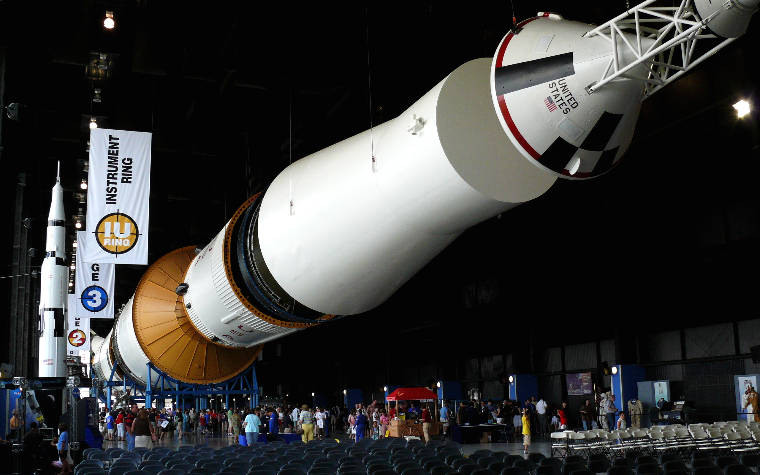 One of two Saturn V launch vehicles on display at the U.S. Space & Rocket Center, this replica hangs in the main hall of the Davidson Center for Space Exploration.Photo taken with a Panasonic Lumix DMC-FZ50 in Huntsville, AL, USA.